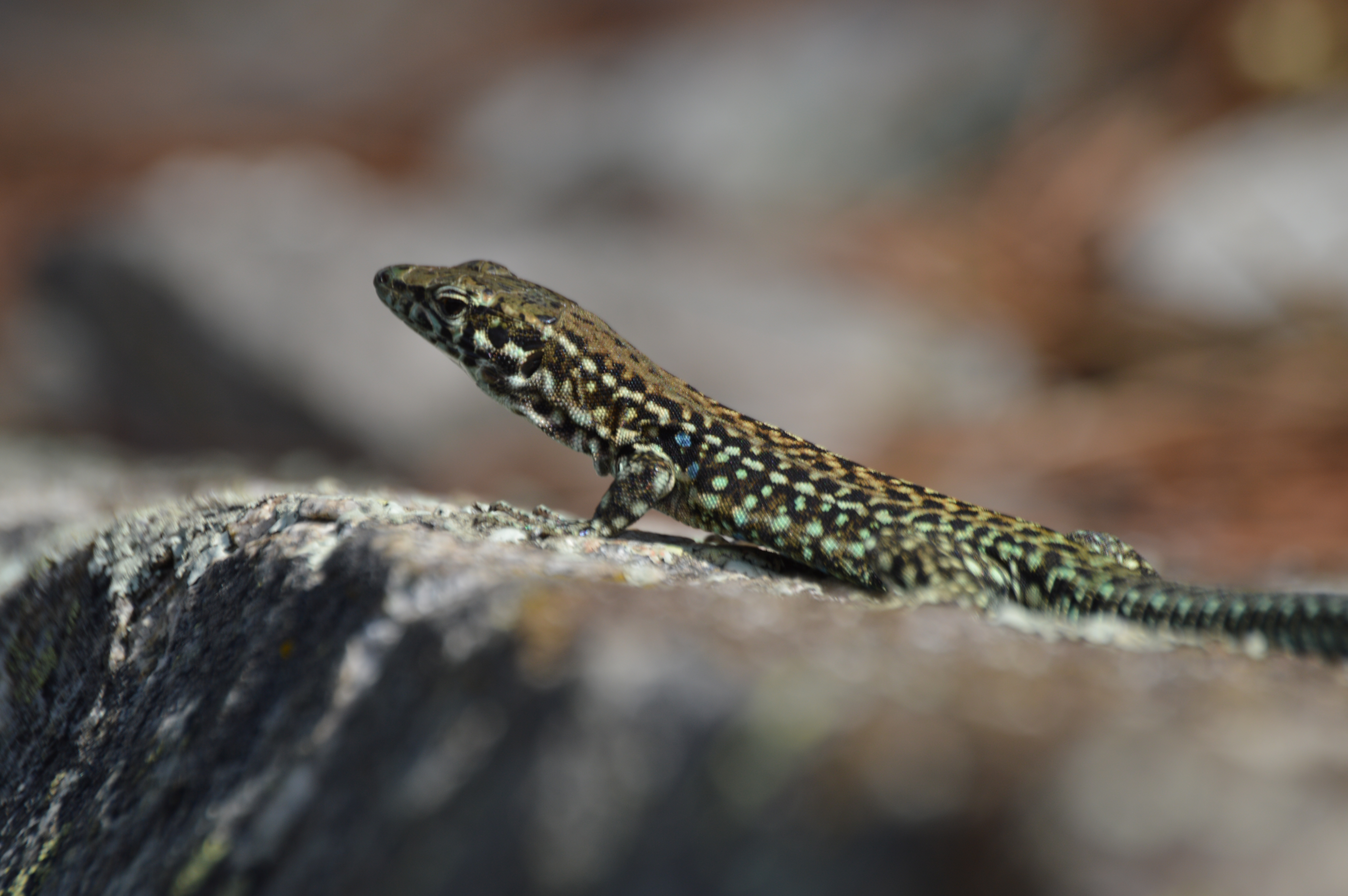 Corsica, September 2014